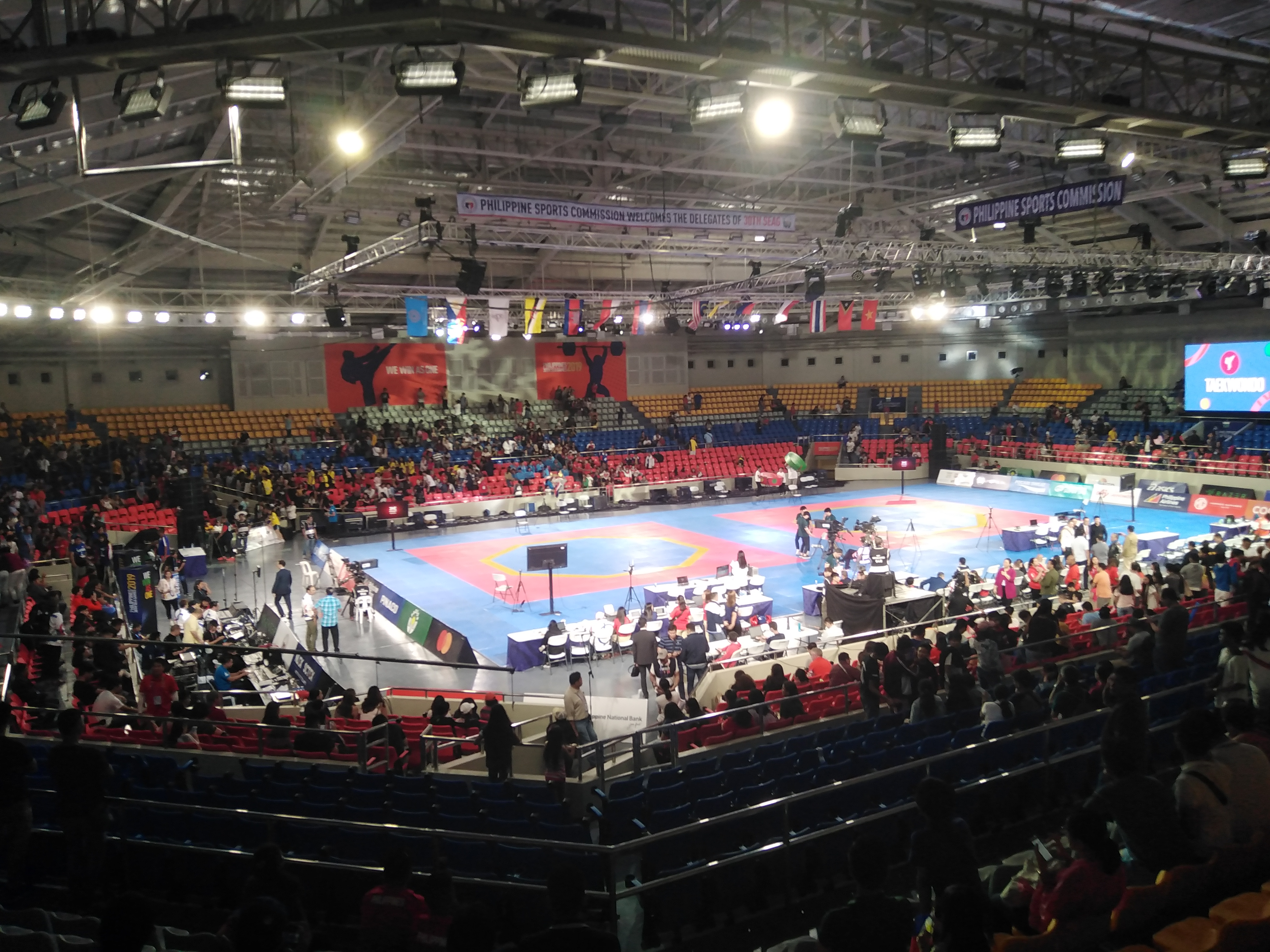 The Ninoy Aquino Stadium shortly after the Taekwondo tournament of the 2019 Southeast Asian Games. December 8, 2019.